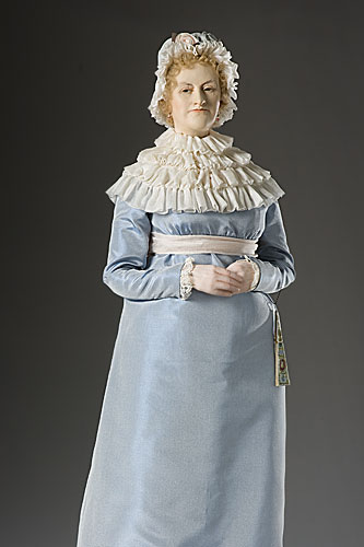 Historical Mixed Media Figure of Abigail Adams produced by artist/historian George S. Stuart and photographed by Peter d'Aprix. This image, from the George S. Stuart Gallery of Historical Figures® archive ( is provided for all uses with appropriate attribution. Any derivatives must be shared in the same manner. Contributor mharrsch is webmaster for the gallery site.